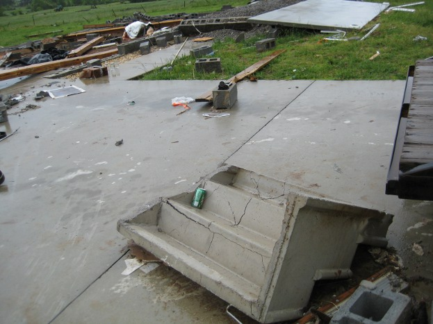 Damage from an EF4 tornado which struck Jackson County, Alabama during the April 27, 2011 tornado outbreak.